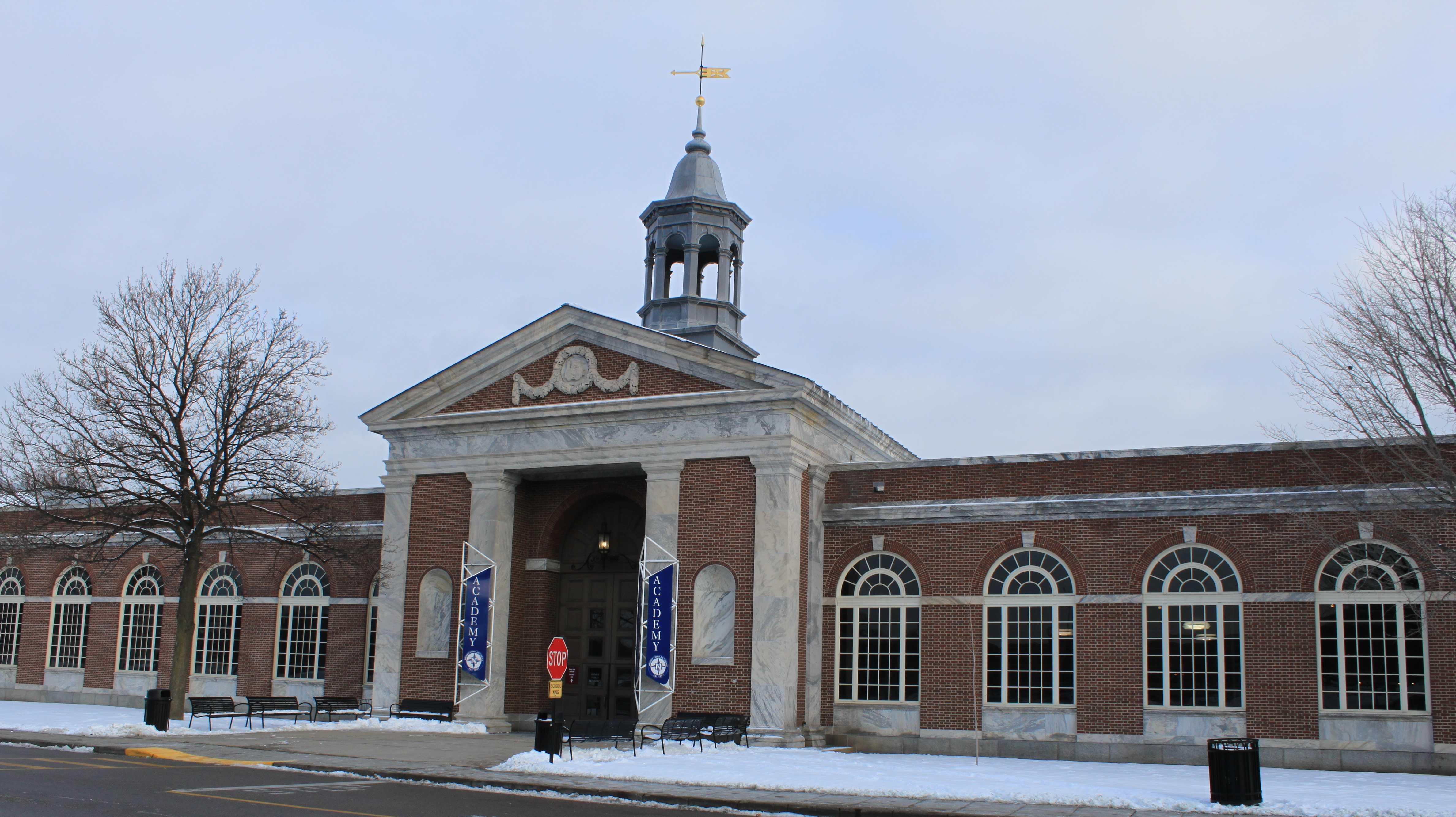 Henry Ford Academy, 20900 Oakwood Boulevard, Dearborn, Michigan